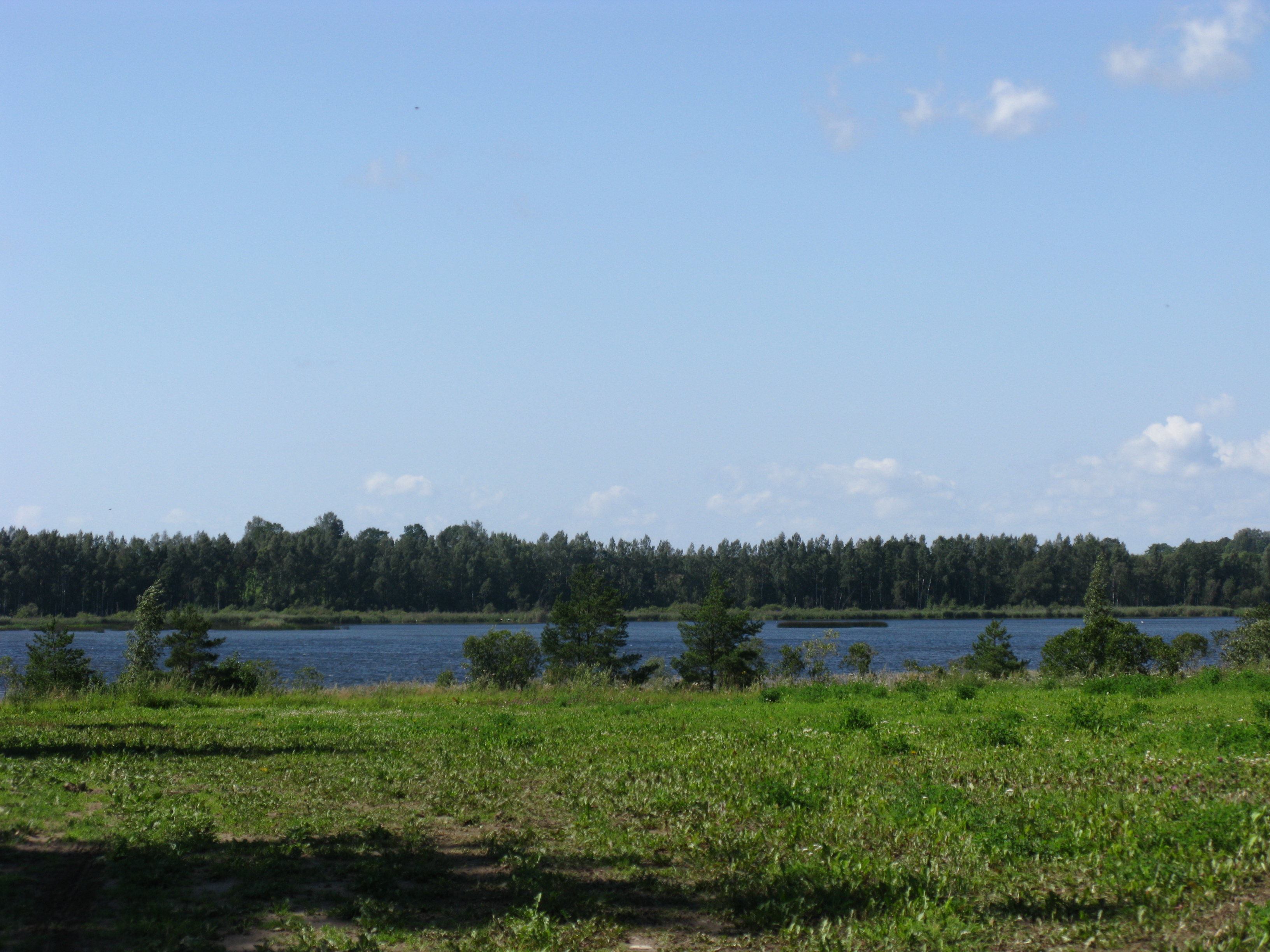 Lake Soitsjärv is located in Tartu District